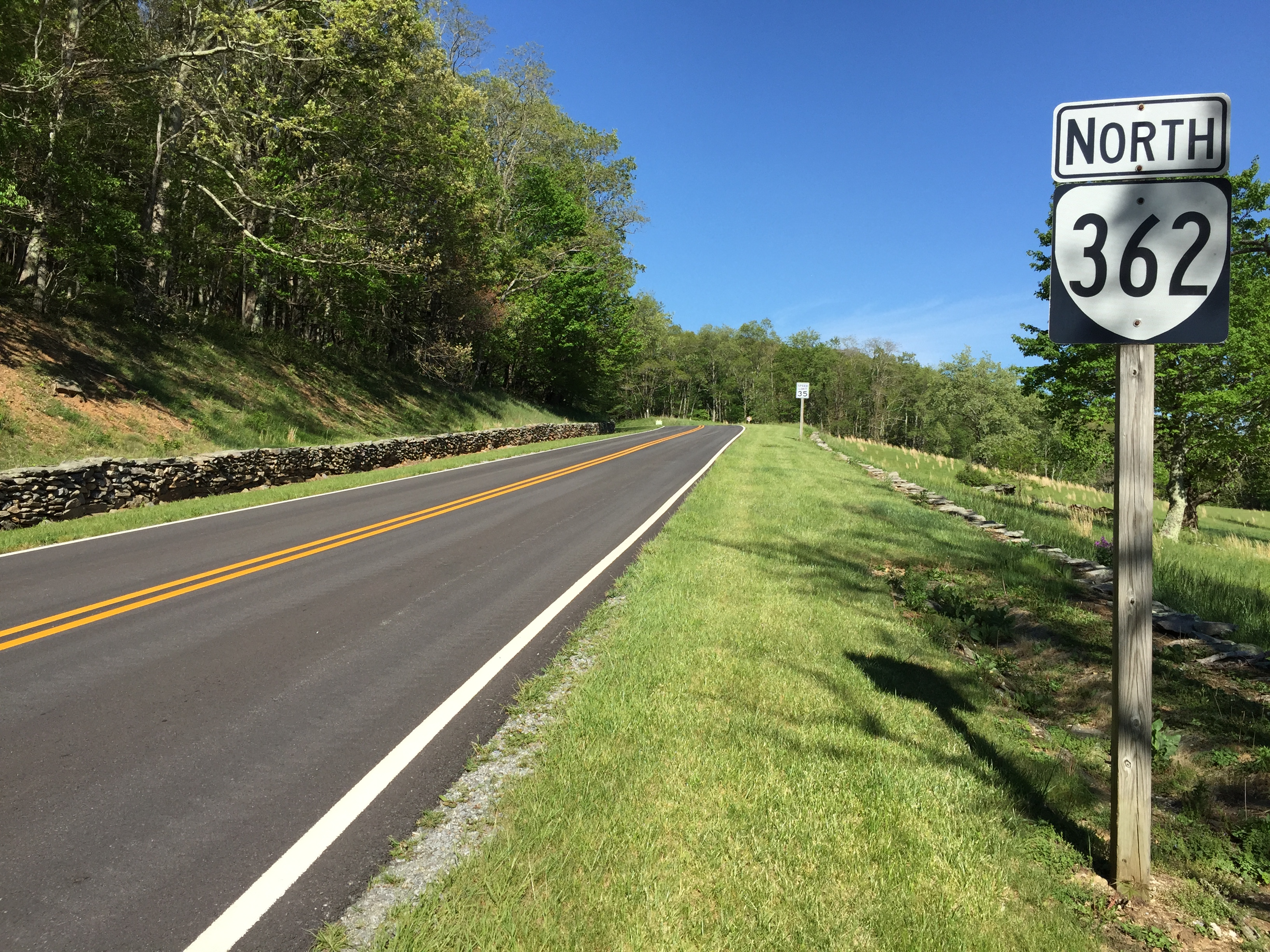 View north at the south end of Virginia State Route 362 (Grayson Highland Lane) at U.S. Route 58 (Highlands Parkway) within Grayson Highlands State Park in Haw Orchard, Grayson County, Virginia